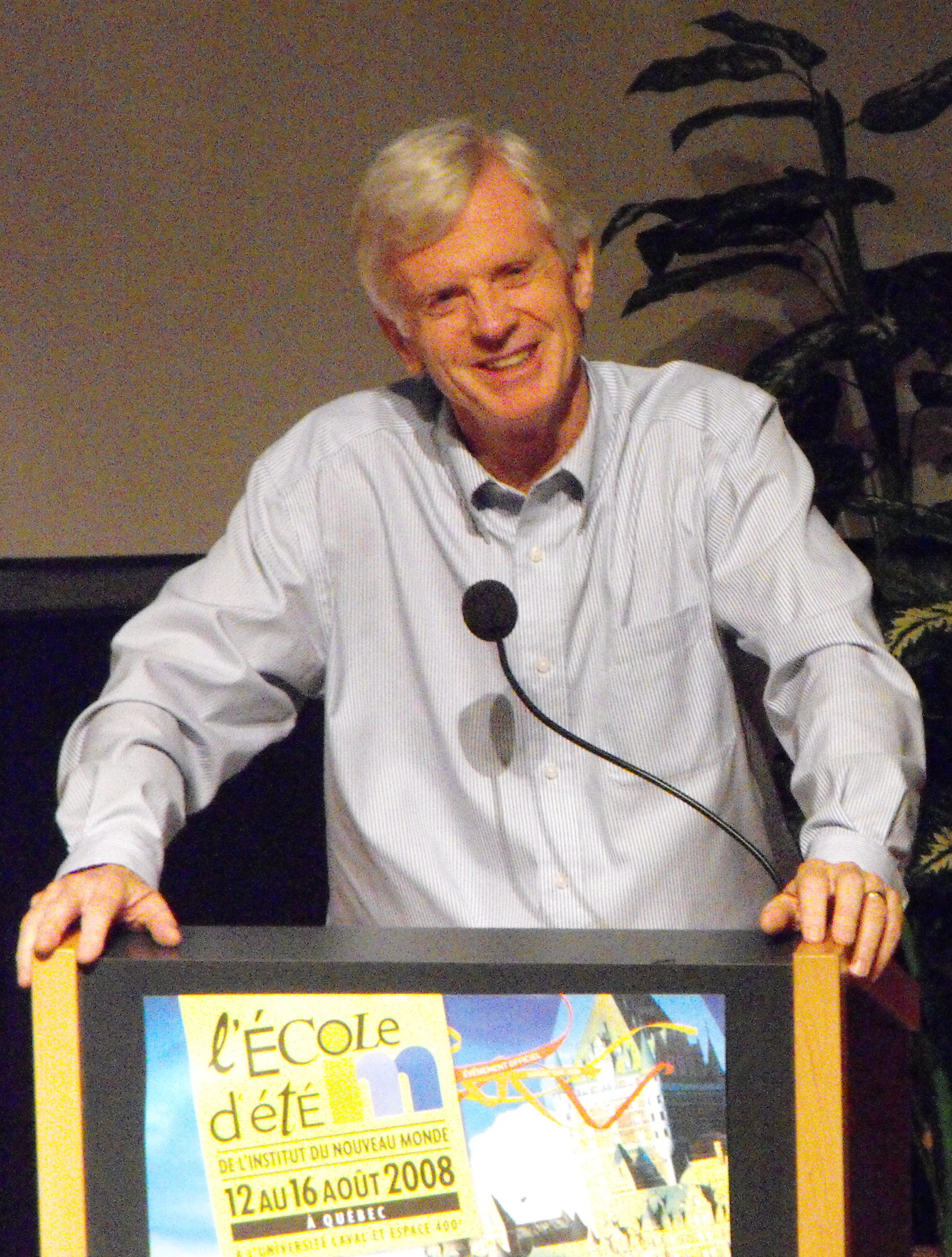 The upholder of human rights and former canadian politician David Kilgour.